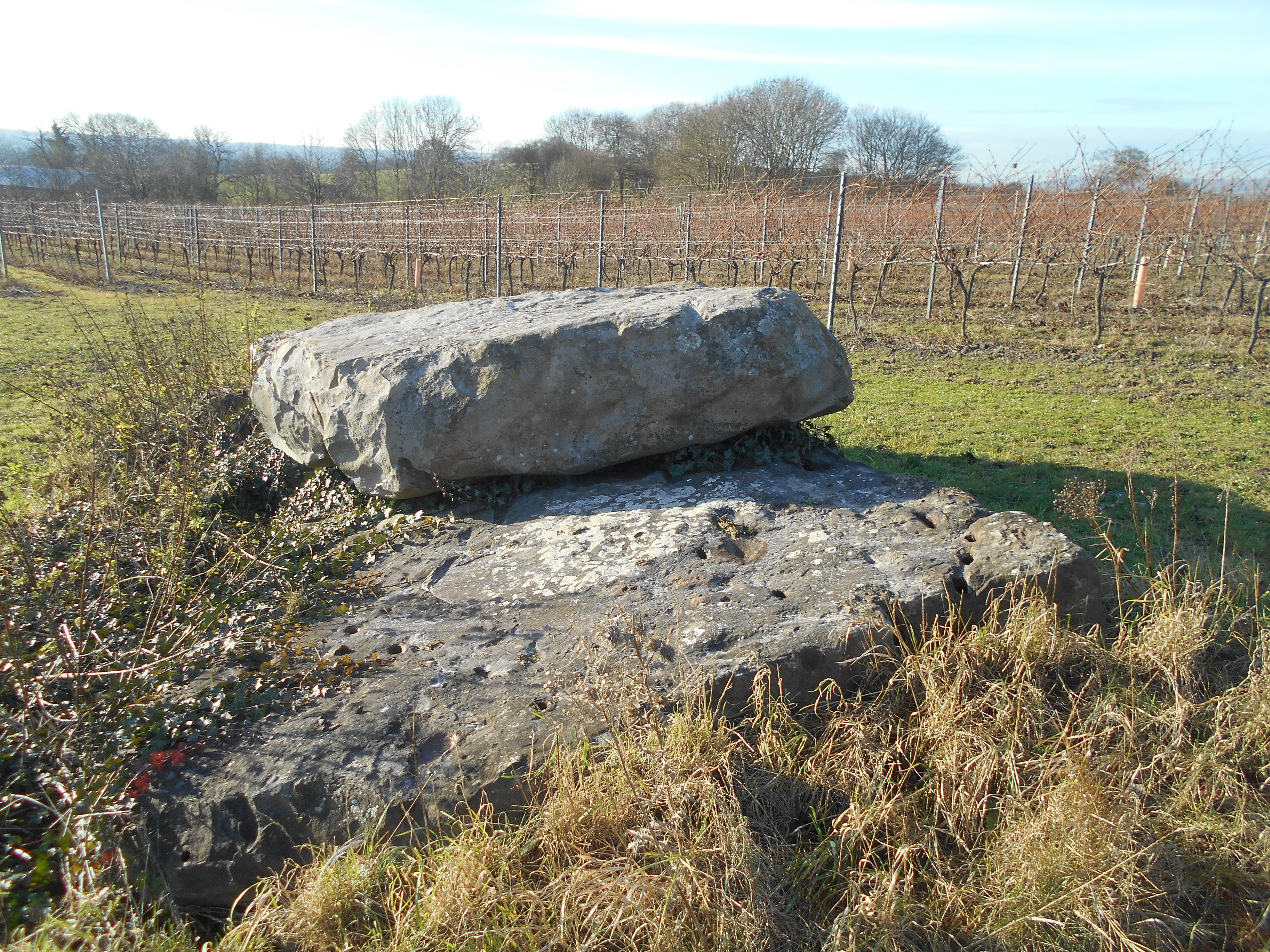 The Coffin Stone, in a vineyard near Blue Bell Hill in Kent, England. Sarsten stones possibly moved from a former neolithic burial chamber nearby.